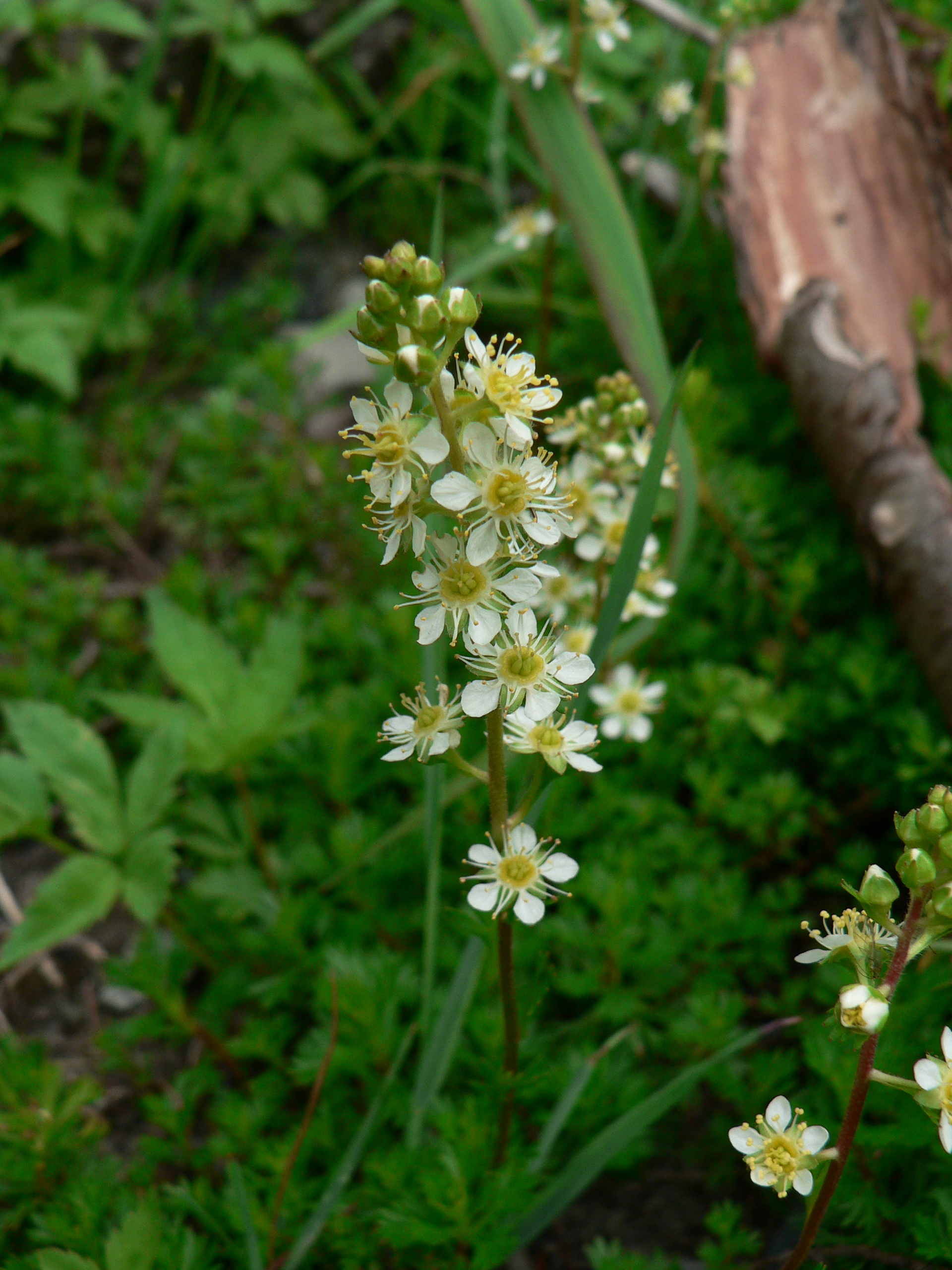 Partridgefoot, Lutkea